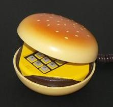 A hamburger phone sold in conjunction with 2007 film Juno.